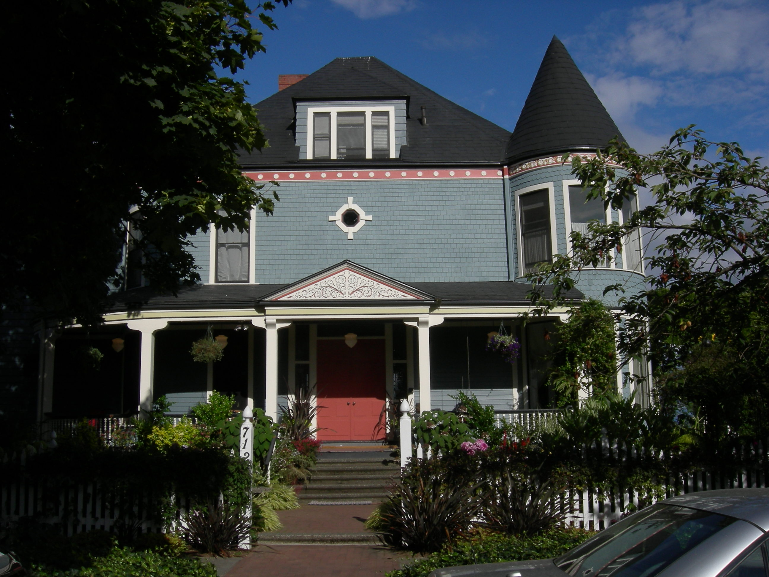 House in the 700 block of 35th Avenue in the Madrona neighborhood of Seattle, Washington.